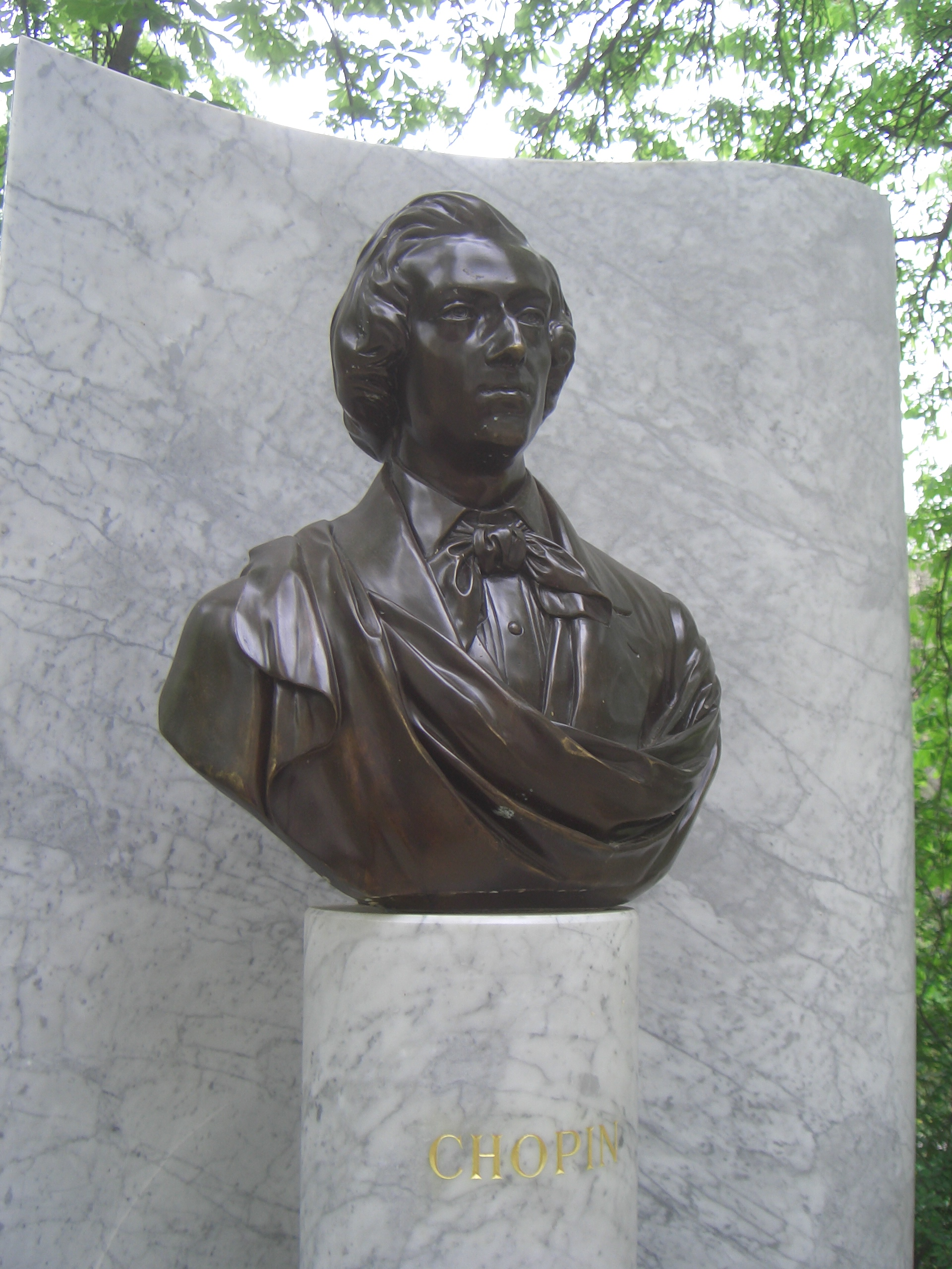 Bust of Frédéric Chopin in Budapest, District I, Horváth-kert (Horváth Garden), 2011. Copy from original work of Polish sculptor Boleslaw Syrewicz